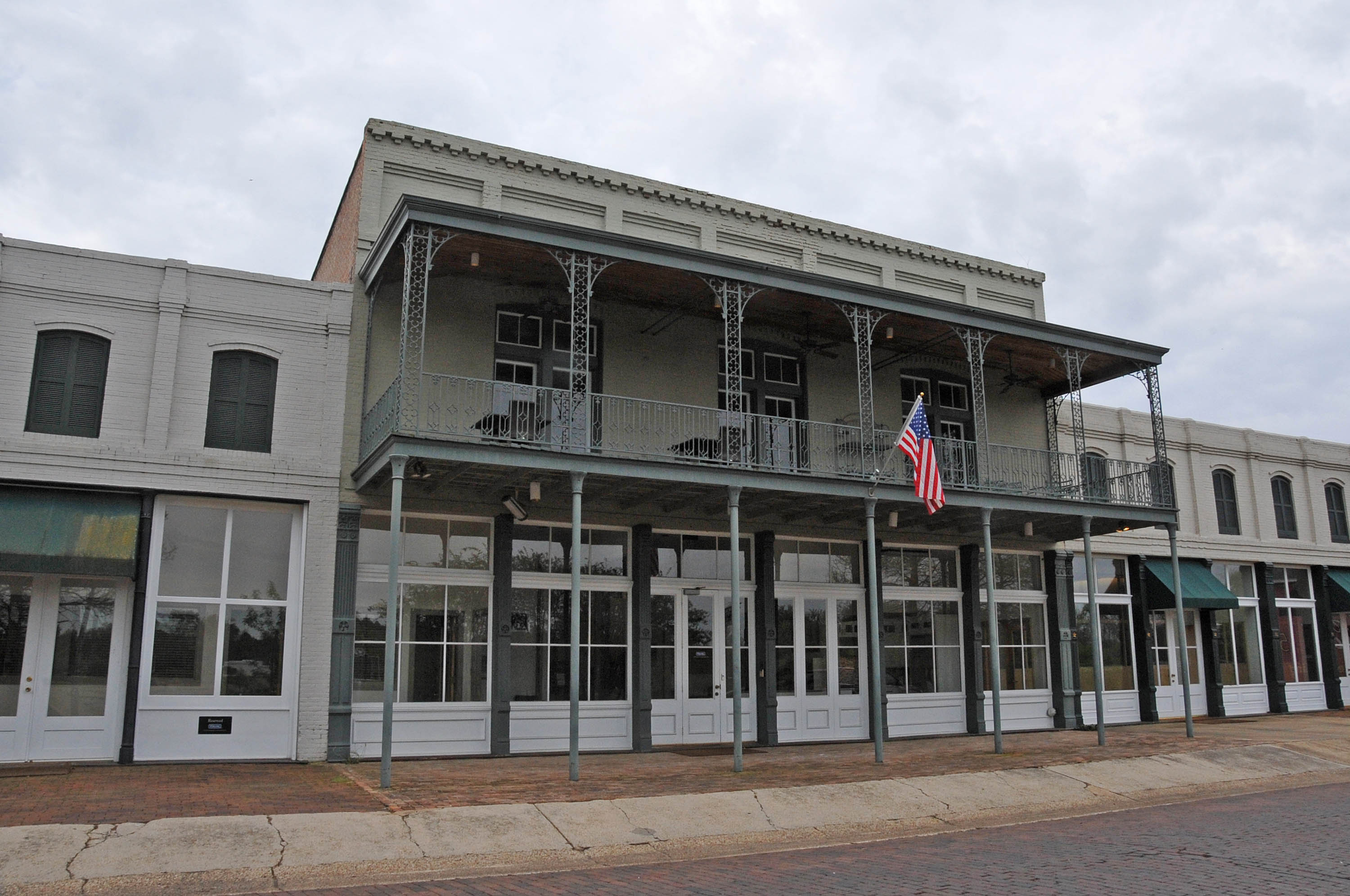 1895 OPERA HOUSE ON WEST FRONT STREET FACING THE YAZOO RIVER